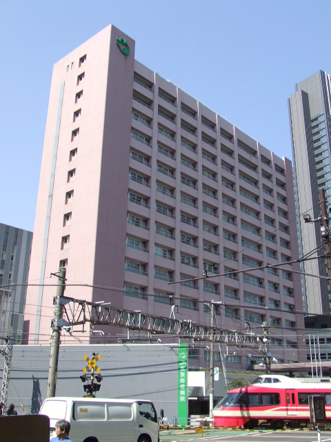 JR TOKYO General Hospital, Shibuya, Tokyo, Japan